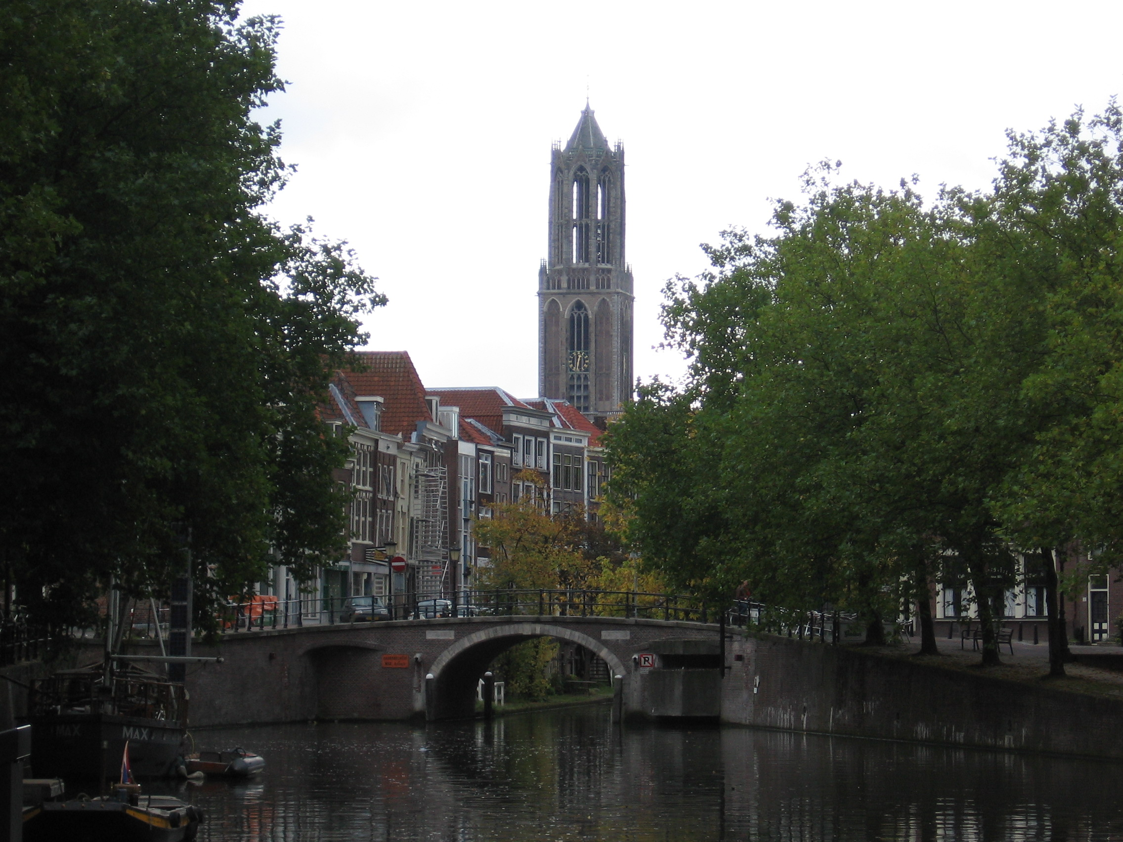 The Oudegracht, in Utrecht, the Netherlands.